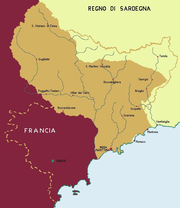 Map of the Comté de Nice/Contea di Nizza (now Provence, France)